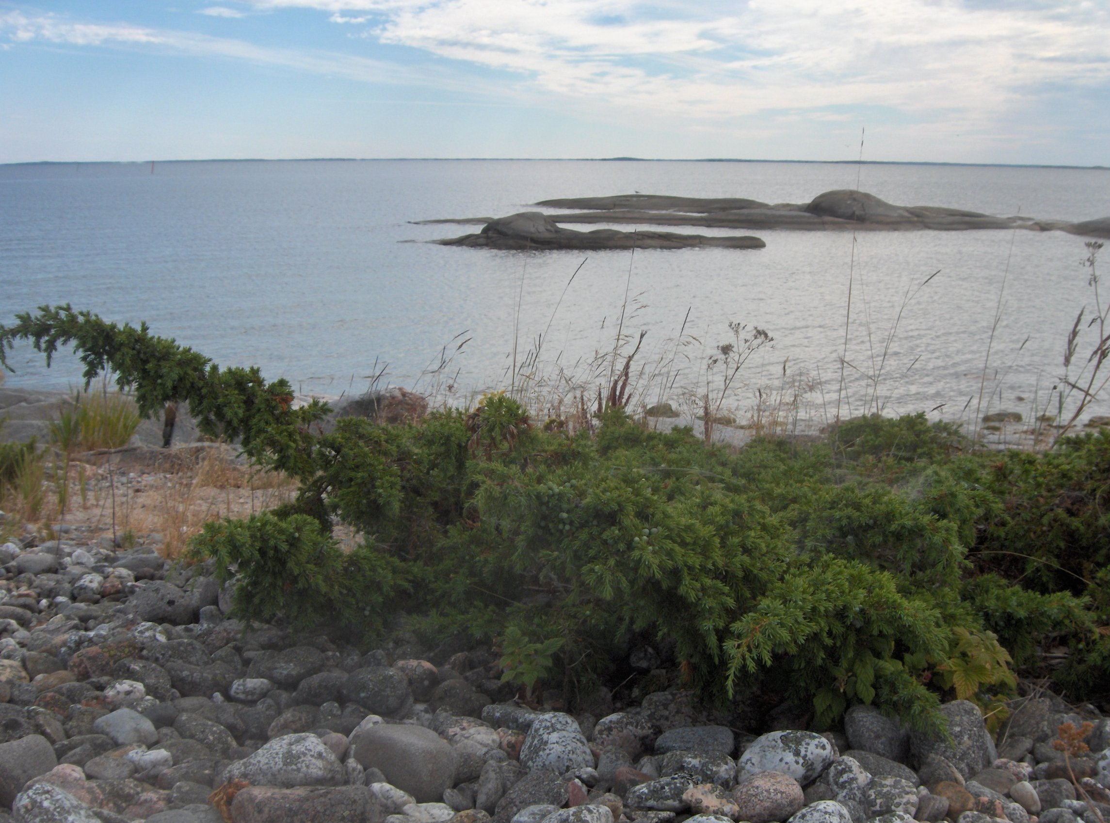 This is a picture of a juniper bush exhibiting a very low-growing phenotype, growing on the eastern shore of the island of Isokari in Uusikaupunki, Finland. The bush is approximately 15 cm tall.